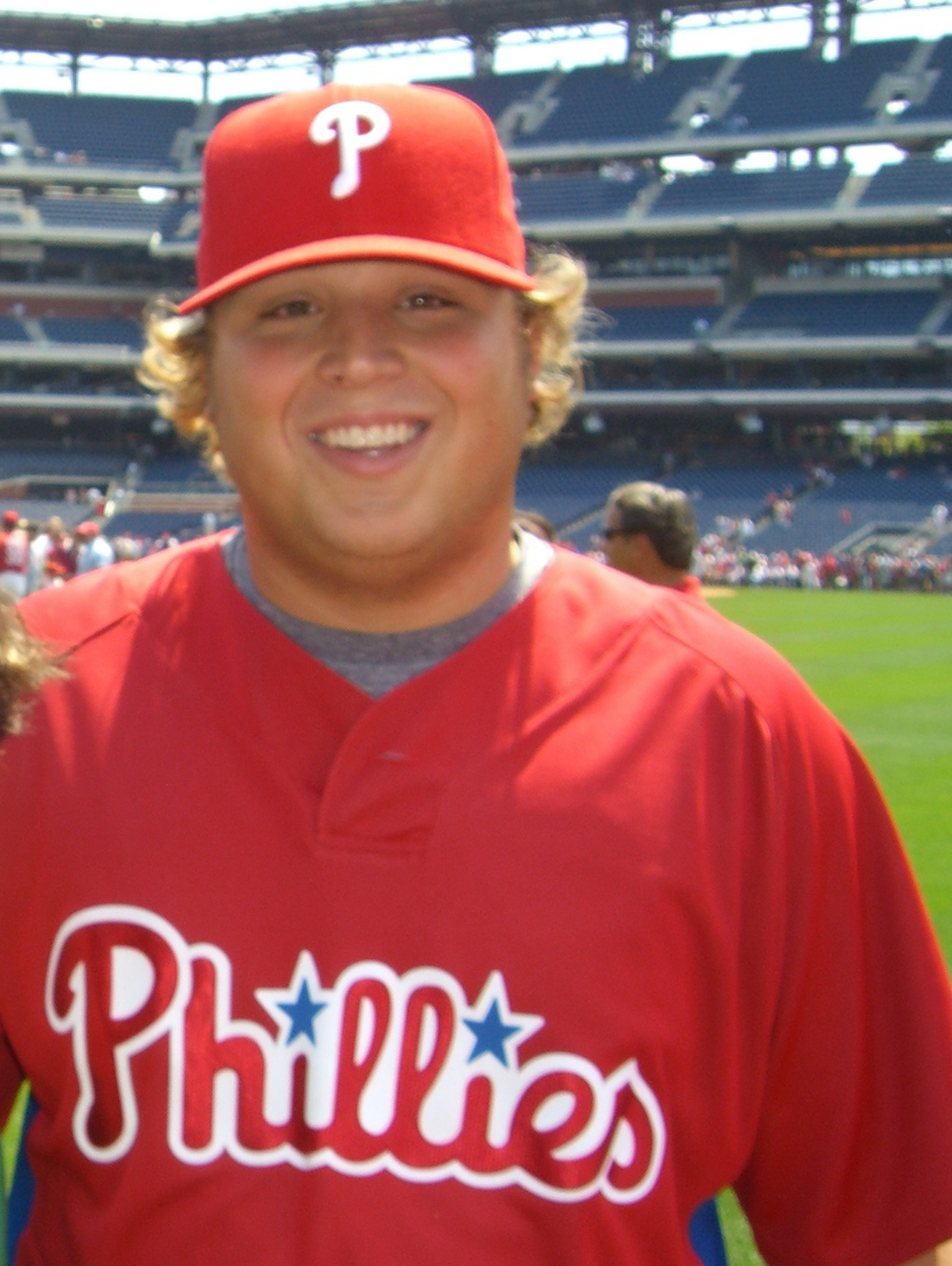 Mike Zagurski, photo day 2007 at Citizens Bank Park, Philadelphia, PA